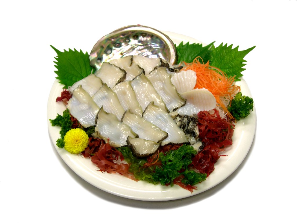 Sashimi of Haliotis (Nordotis) discus Reeve,1846 ( + hannai Ino, 1952) harvested along the coast of Ibaraki Pref., Honshū Island, Japan.